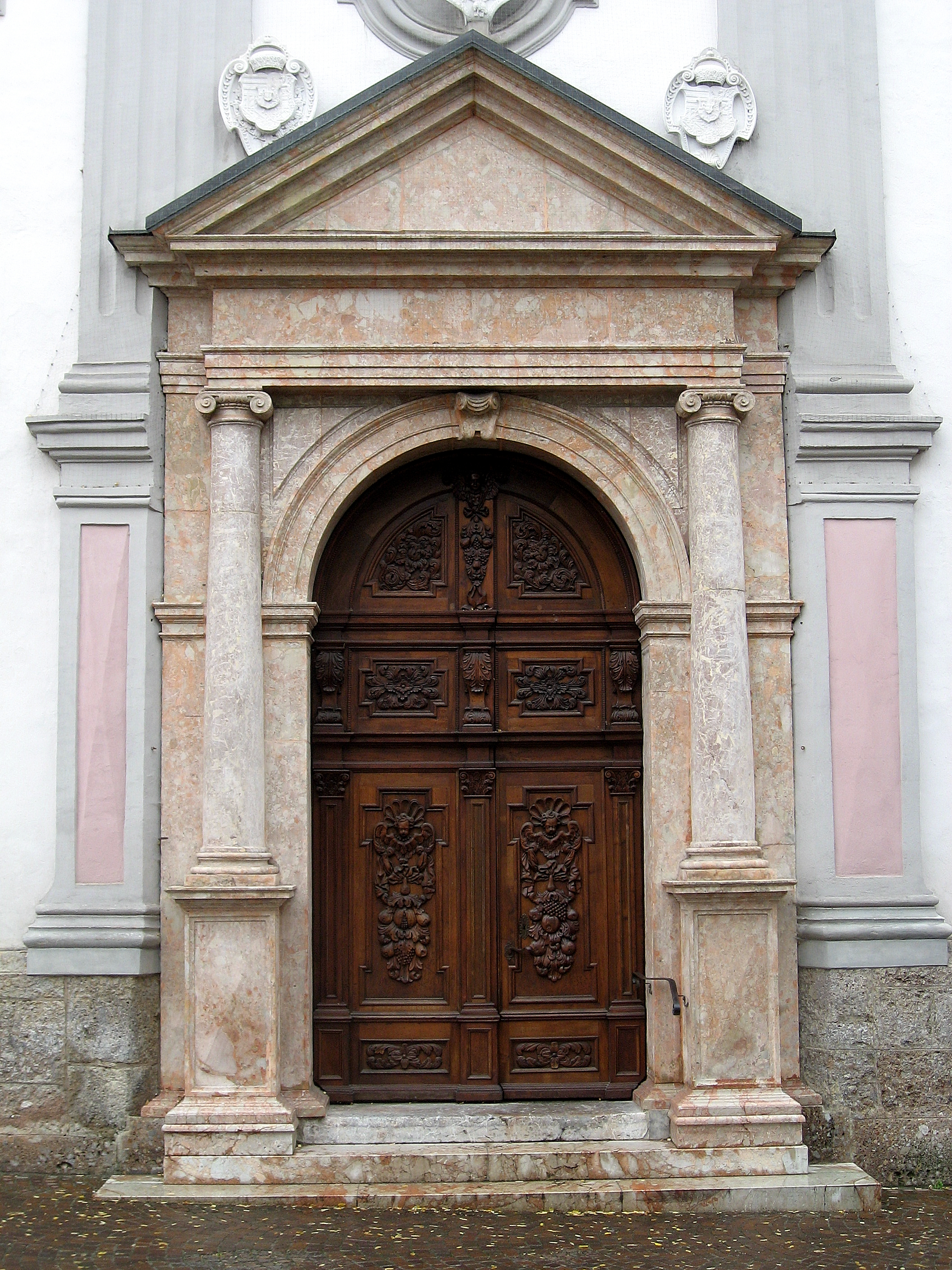 Door to the Church of Our Lady, Hall in Tirol, Austria